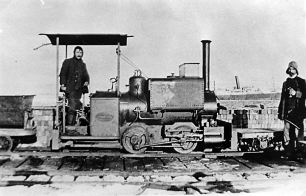 One of the two 'Wren' class narrow gauge steam locomotives of Camber Railway on the Falkland Islands. The open cab was not appropriate for a Falklands winter. This photo was probably taken immediately after the unloading of the locomotive in 1915, with the ship in the background being the SS Ismailia which brought the railway and wireless station equipment out from Britain. The picture illustrates the two original types of wagon, a tipper on an inside bearing oval chassis seen on the left, and a flat wagon on a rectagular outside bearing chassis seen to the right. Both types of wagon ran on coil springs. Photo from Stanley Museum collection